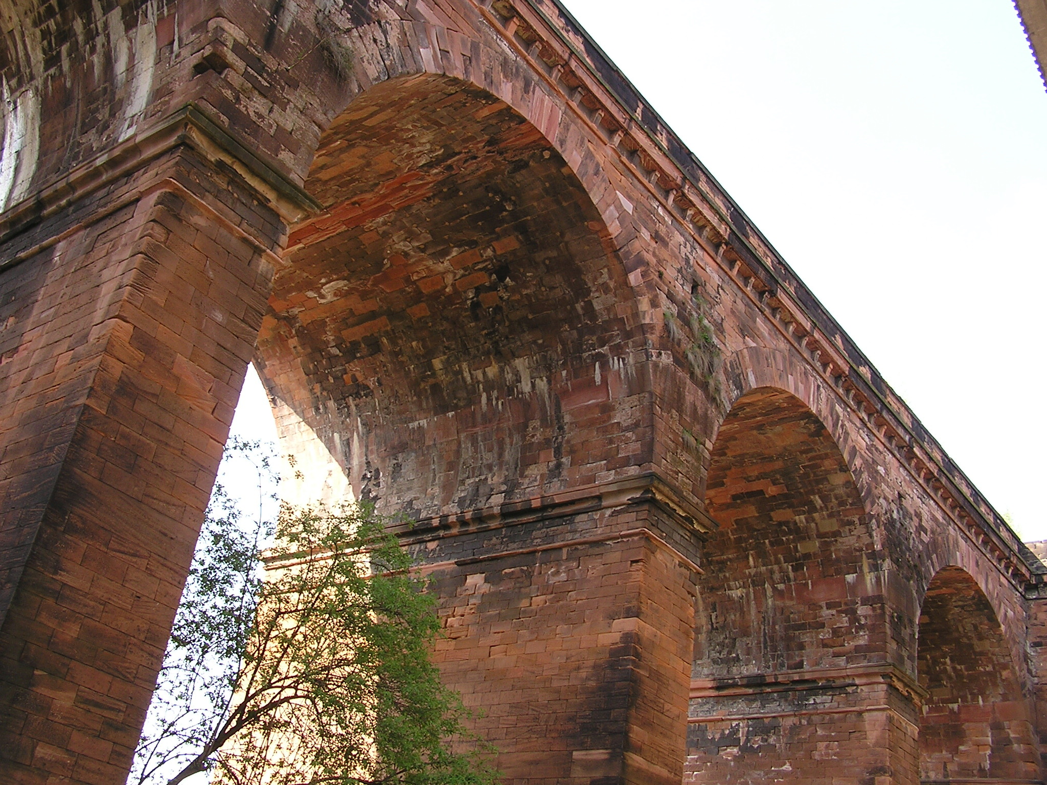 The “Rosentalviadukt” at the Main-Weser-Bahn in Friedberg